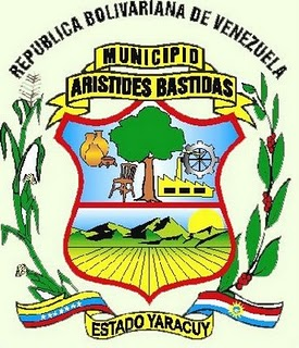 Aristides Bastidas Municipality shield (Yaracuy), Venezuela